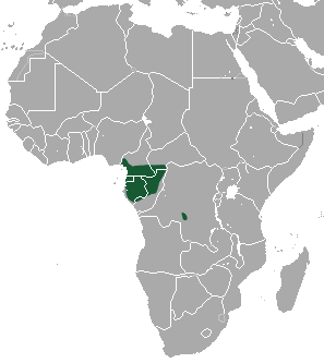 Lesser Large-headed Shrew (Paracrocidura schoutedeni) range